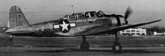 Nakajima B5N2 at NAS Anacosta is tested by US Navy personnel of the TAIC (Technical Air Intelligence Centre) after the war to obtain information about design, performance, capability.